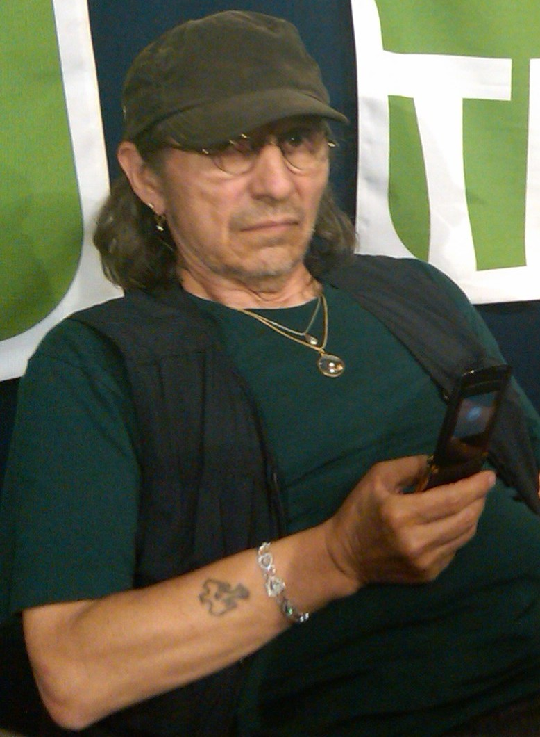 Native American/First Nations political leader/poet/songwriter, John Trudell on the set of the weekly live TV show, Cannabis Common Sense.